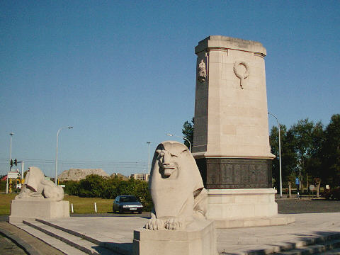 The WWI British Monument at Niewpoort, Belgium - stone lions by the sculptor Charles Sargeant Jagger